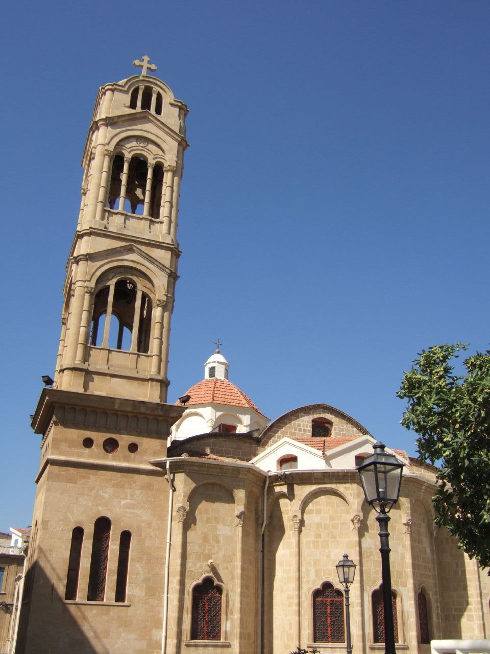 Agia Faneromeni church in NicosiaCathedral